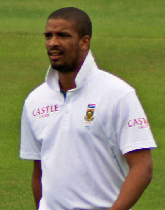 Vernon Philander, pictured during a tour match between South Africa and Somerset in 2012.